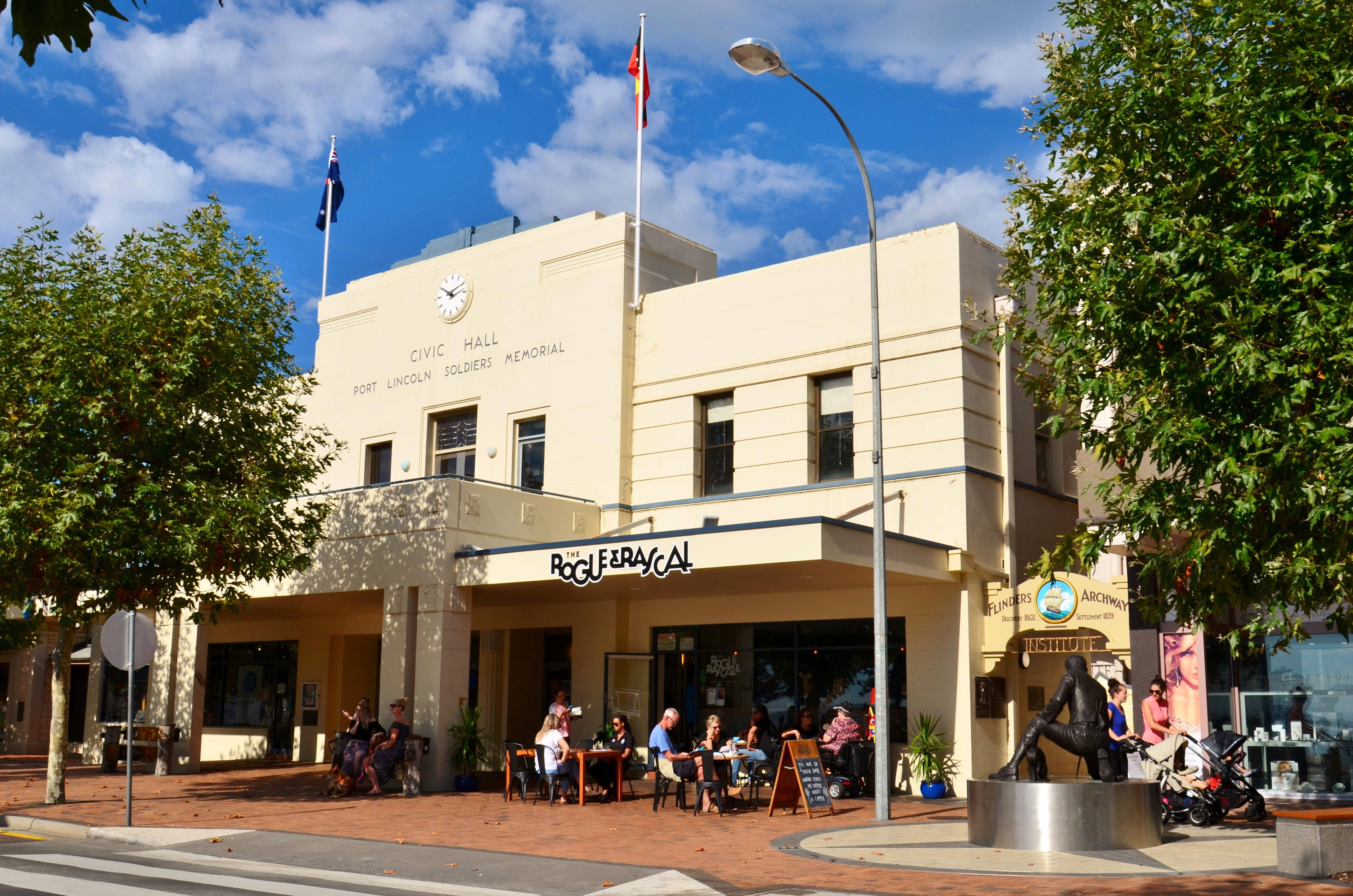 View of the Civic Hall & Nautilus Theatre, now called the Nautilus Arts Centre, Port Lincoln, South Australia